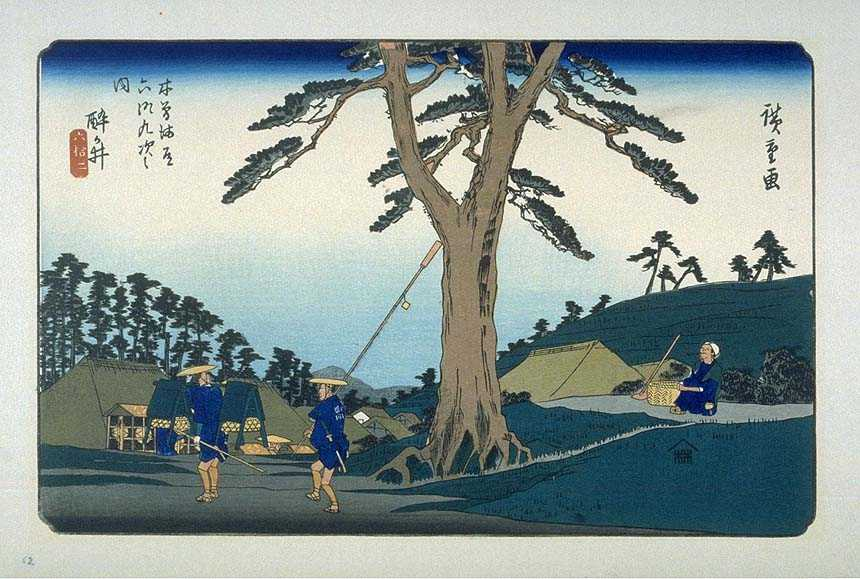 Samegai on the Kisokaido, ukiyo-e prints by Hiroshige